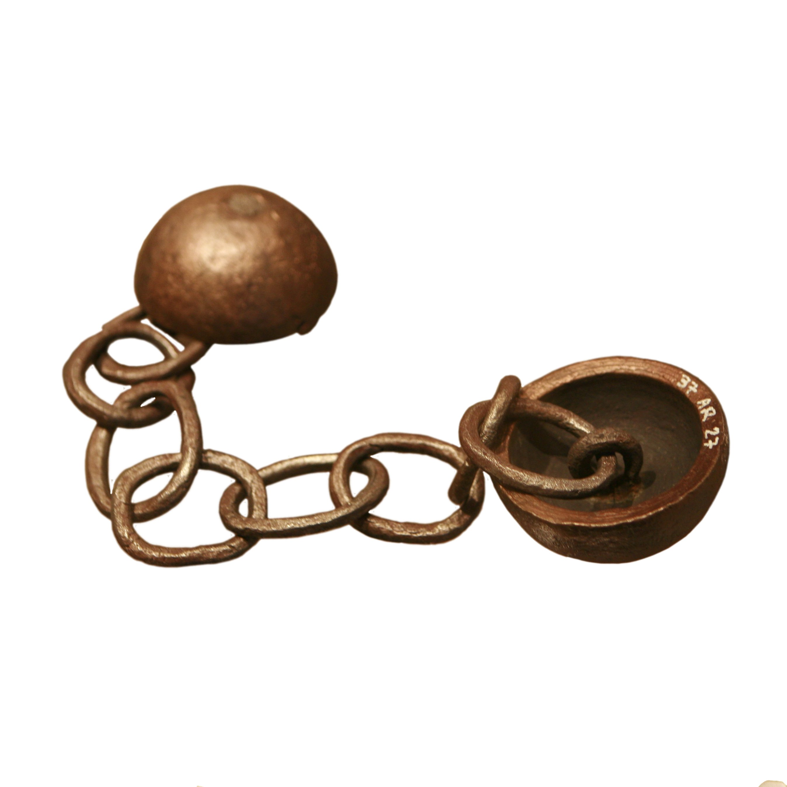 Chain shot On display at Toulon naval museum. Access number 37 AR 27.